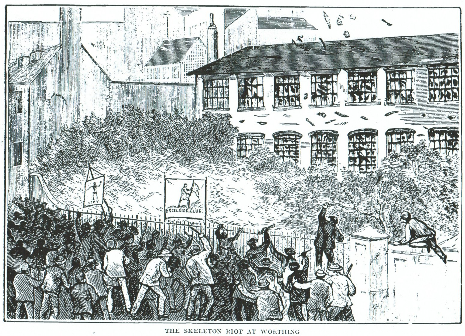 Scan of an illustration in The War Cry